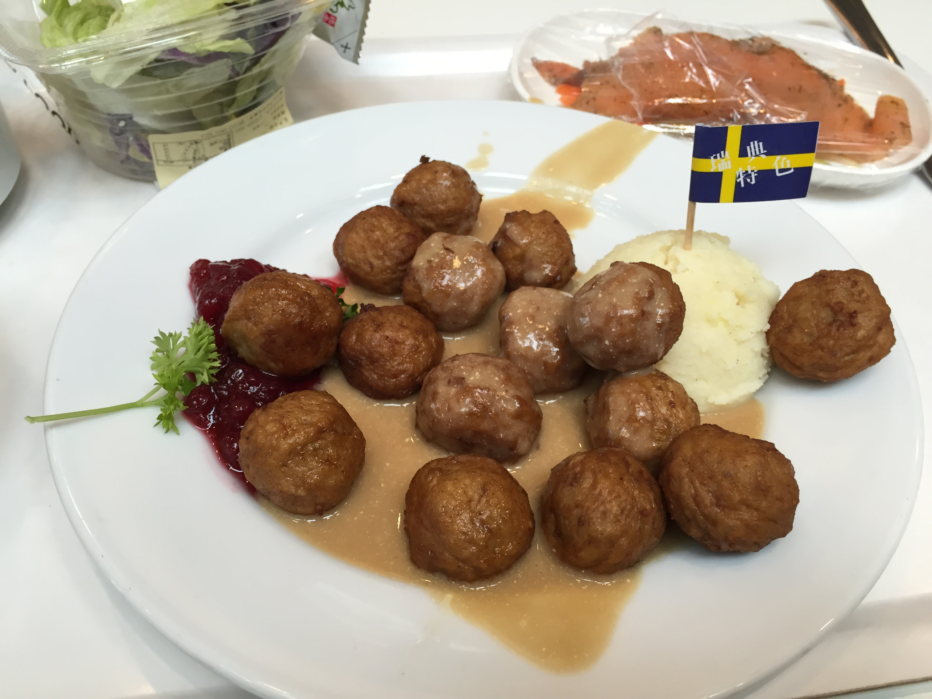 CNY20.5 for 15 meatballs and a scoop of mashed potato with a Swedish flag.